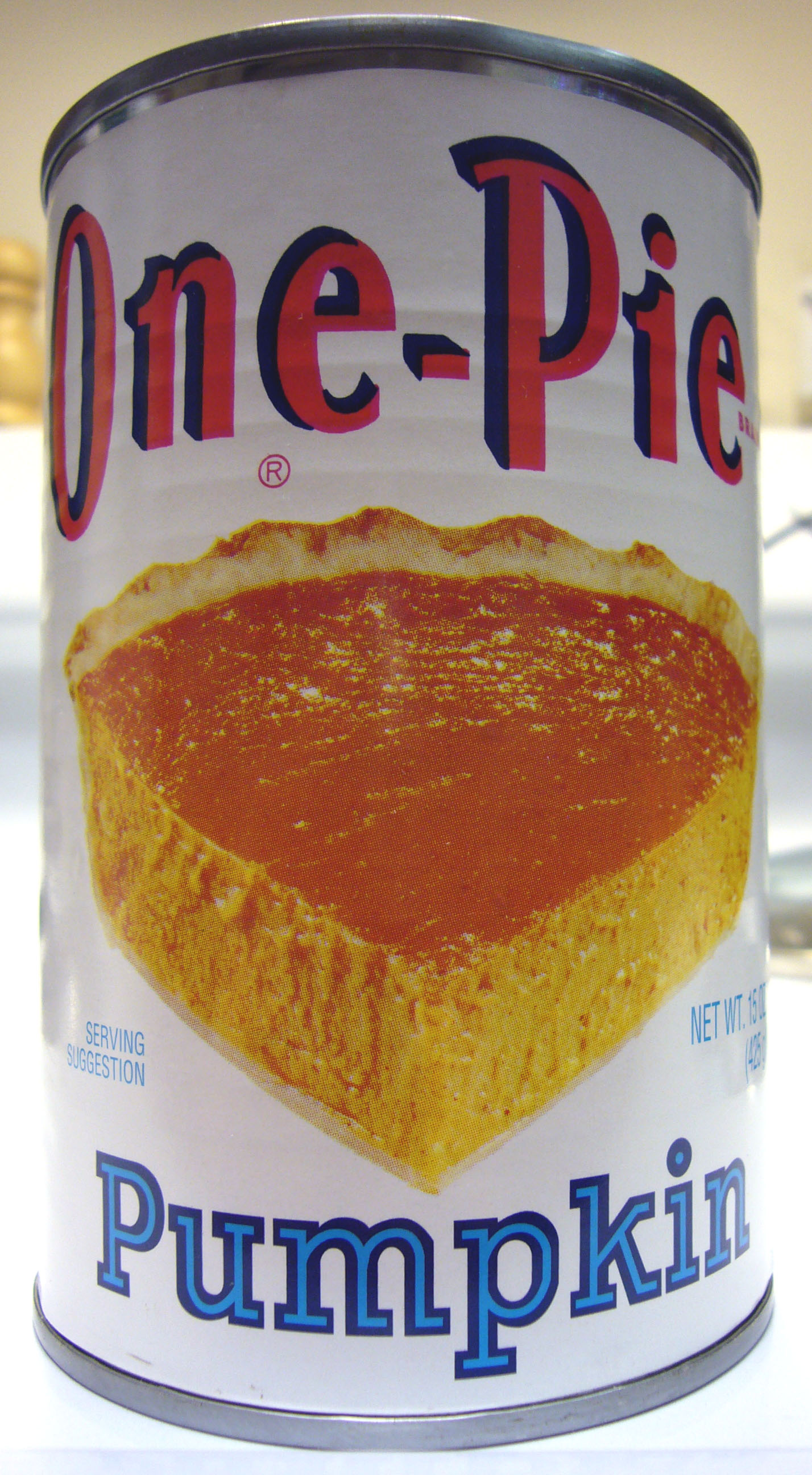 A can of pureed pumpkin made by One-Pie.